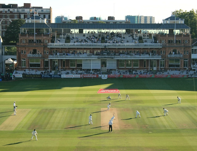 Evening light at Lord's Cricket Ground Around 7.15pm on the fourth day of the England v India Test. Ryan Sidebottom bowls to Sourav Ganguly. Dinesh Karthik is the non-striker, Steve Bucknor the umpire and Monty Panesar mid-on. Next day England narrowly failed to convert a strong position into victory.